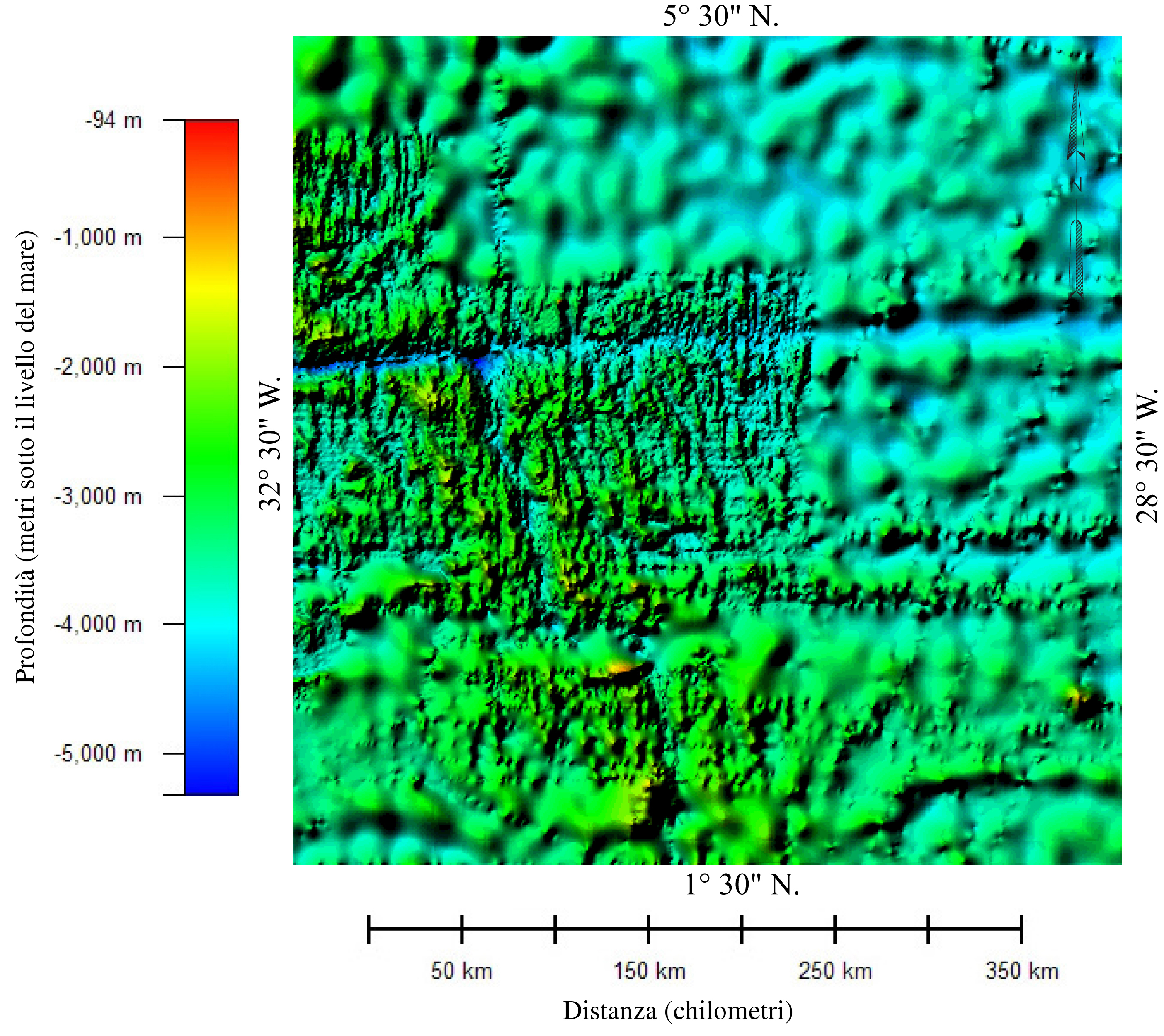 Color relief map of the bathymetry of the part of Atlantic Ocean in which Air France Flight 447 crashed. The image shows two different data sets with different resolution. The areas showing detailed bathymetry were mapped using multibeam bathmetry sonar. The areas showing very generalized bathmetry were mapped using high-density satellite altimetry.